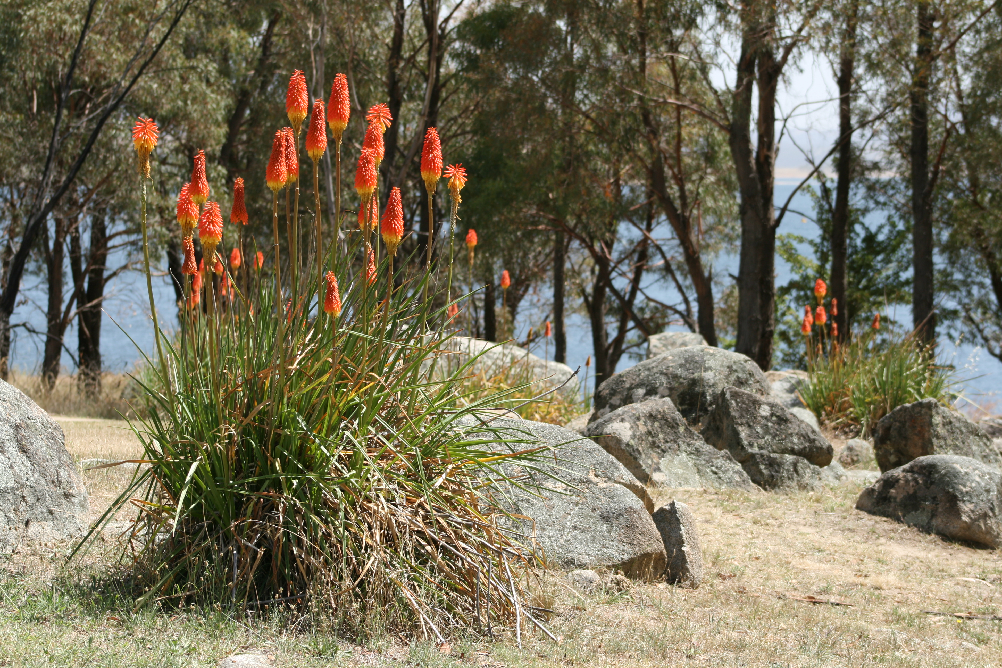 Red-hot poker plants (Kniphofia uvaria) on the shore of Lake Jindabyne, New South Wales, Australia.